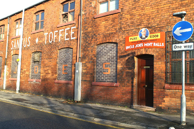 Wigan delicacy